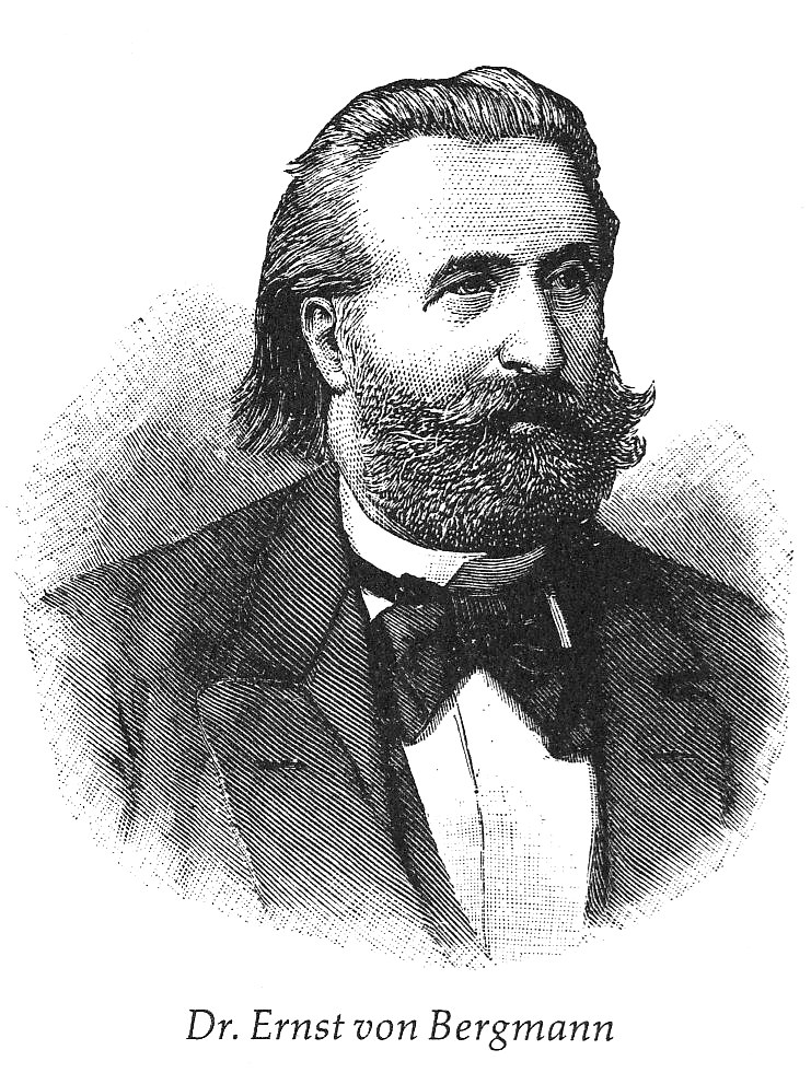 Ernst von Bergmann (1836-1907), German surgeon